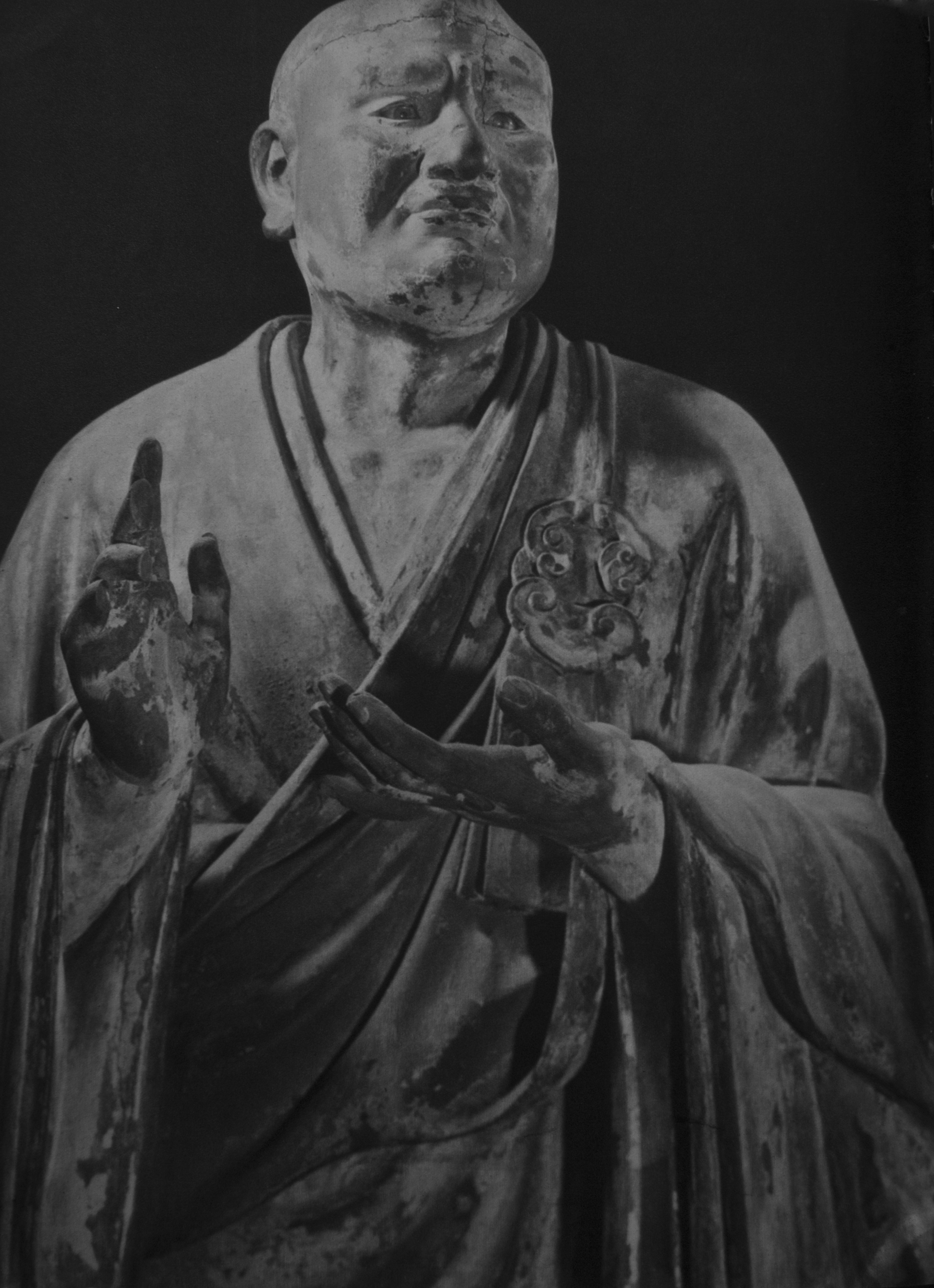 Kofukuji, Nara, Japan